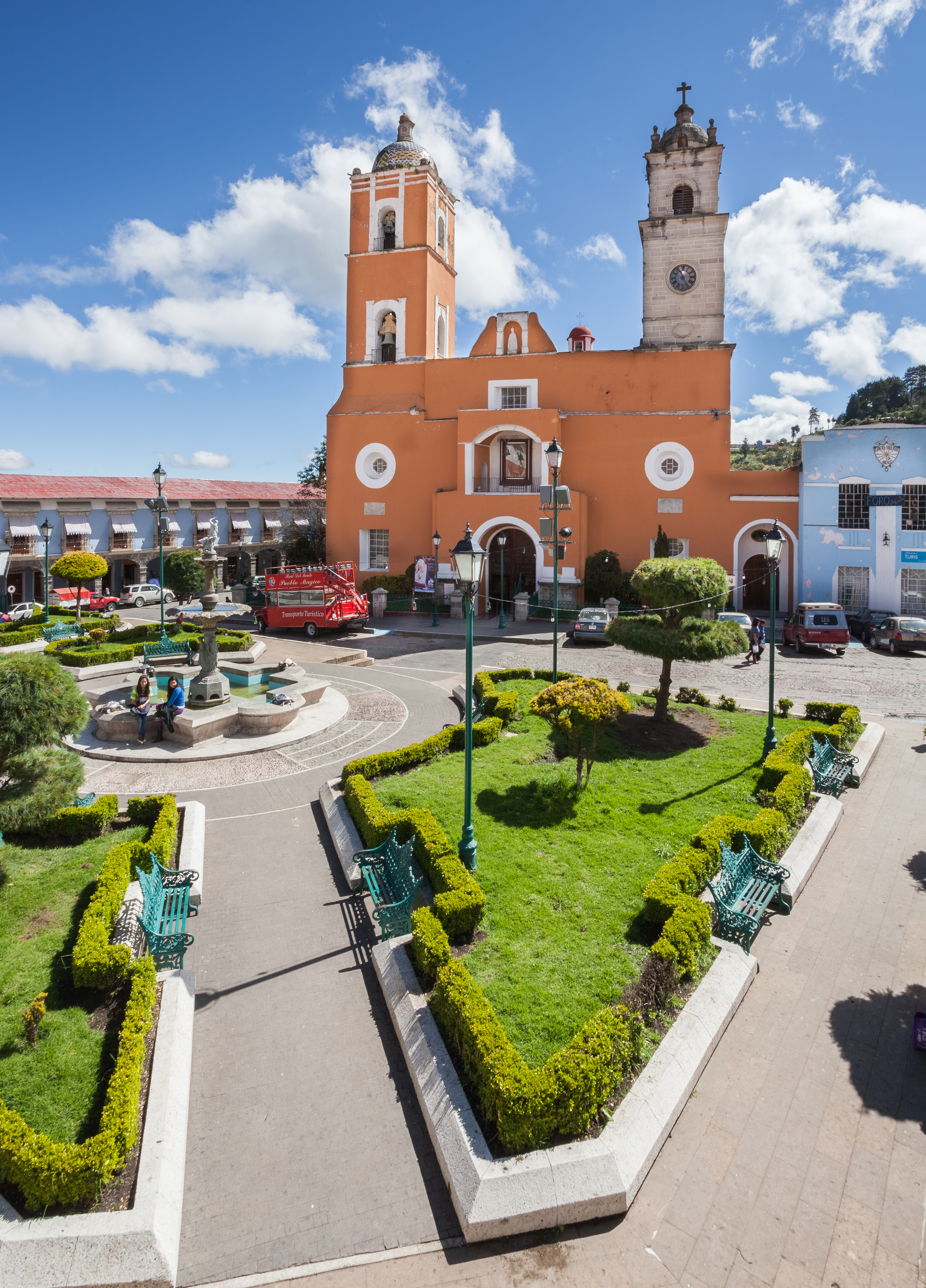 Church of Our Lady of the Ascension, Real del Monte, Hidalgo, Mexico